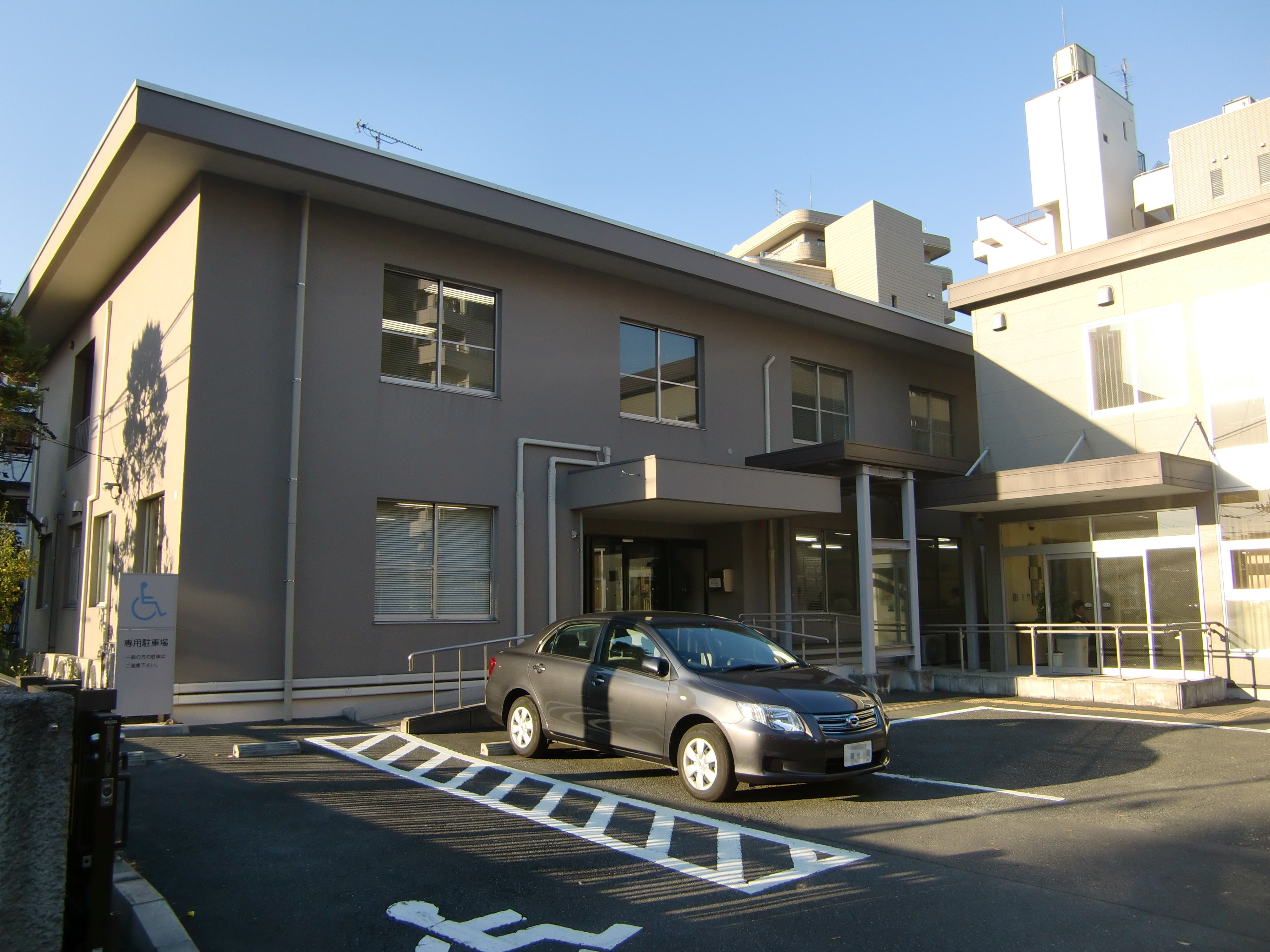 Kanagawa Summary Court.